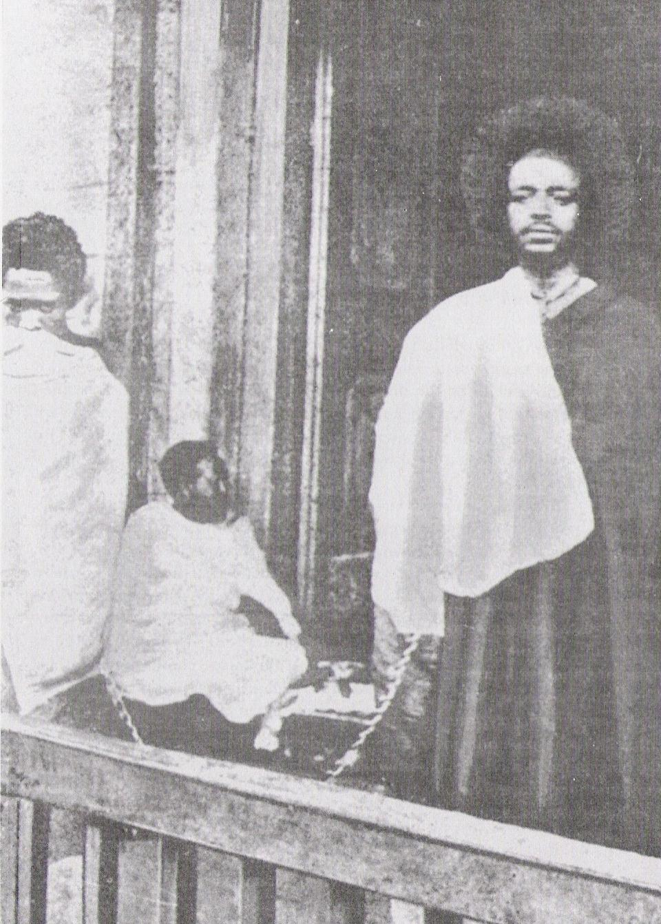 Tato Gaki Sherocho, king of Kaffa, in chains after his defeat against Ras Wolde Giyorgis.